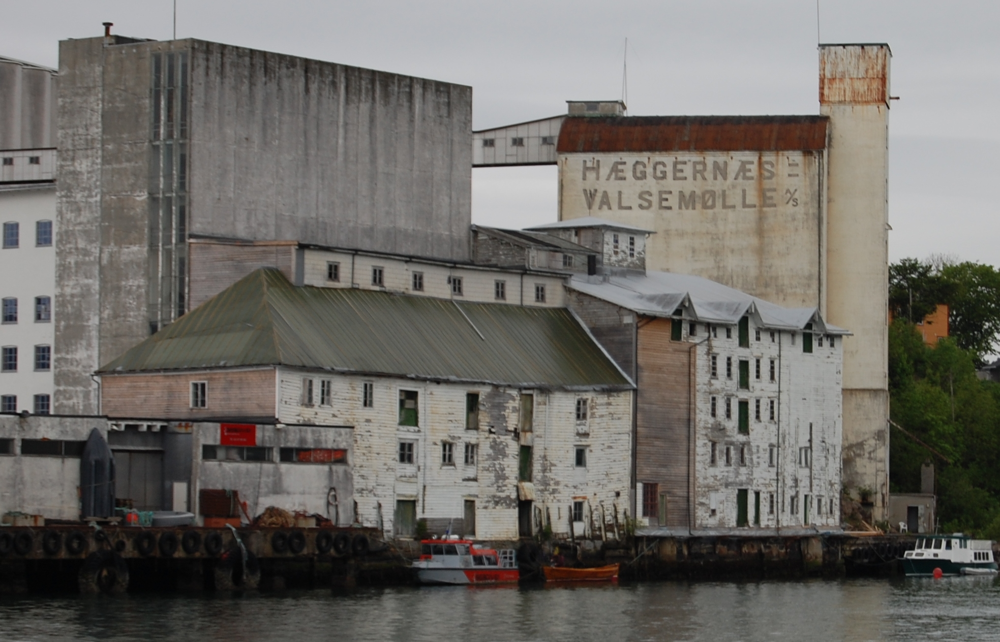 Hægreneset Valsemølle, Sandviksboder 82, Bergen, Norway.